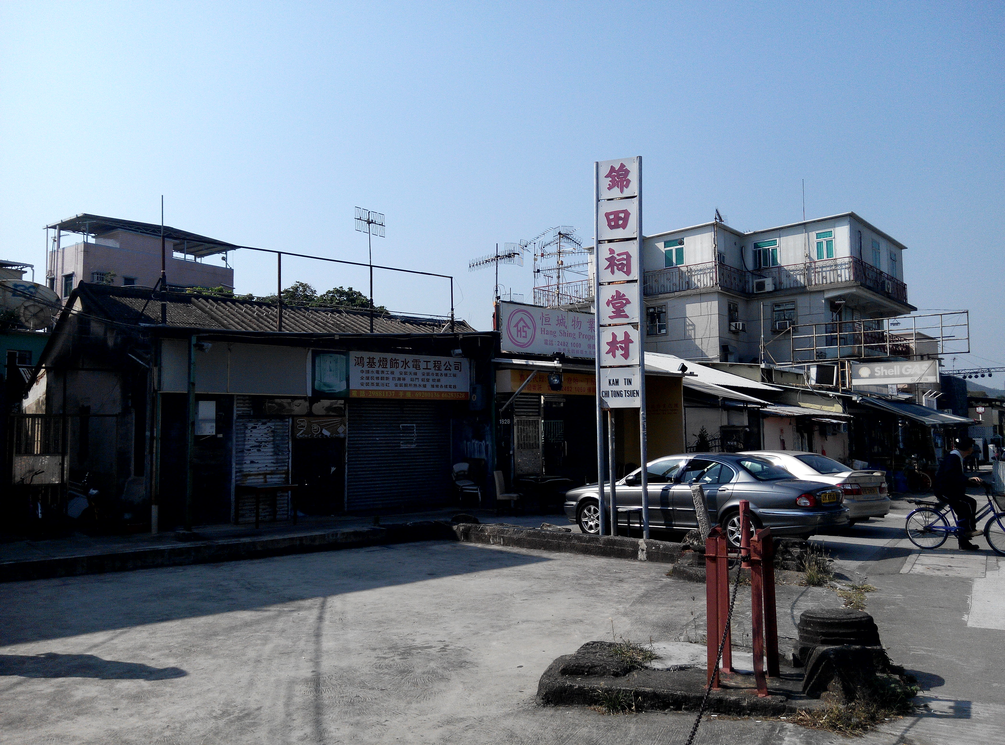 Kam Tin, Tsz Tong Tsuen